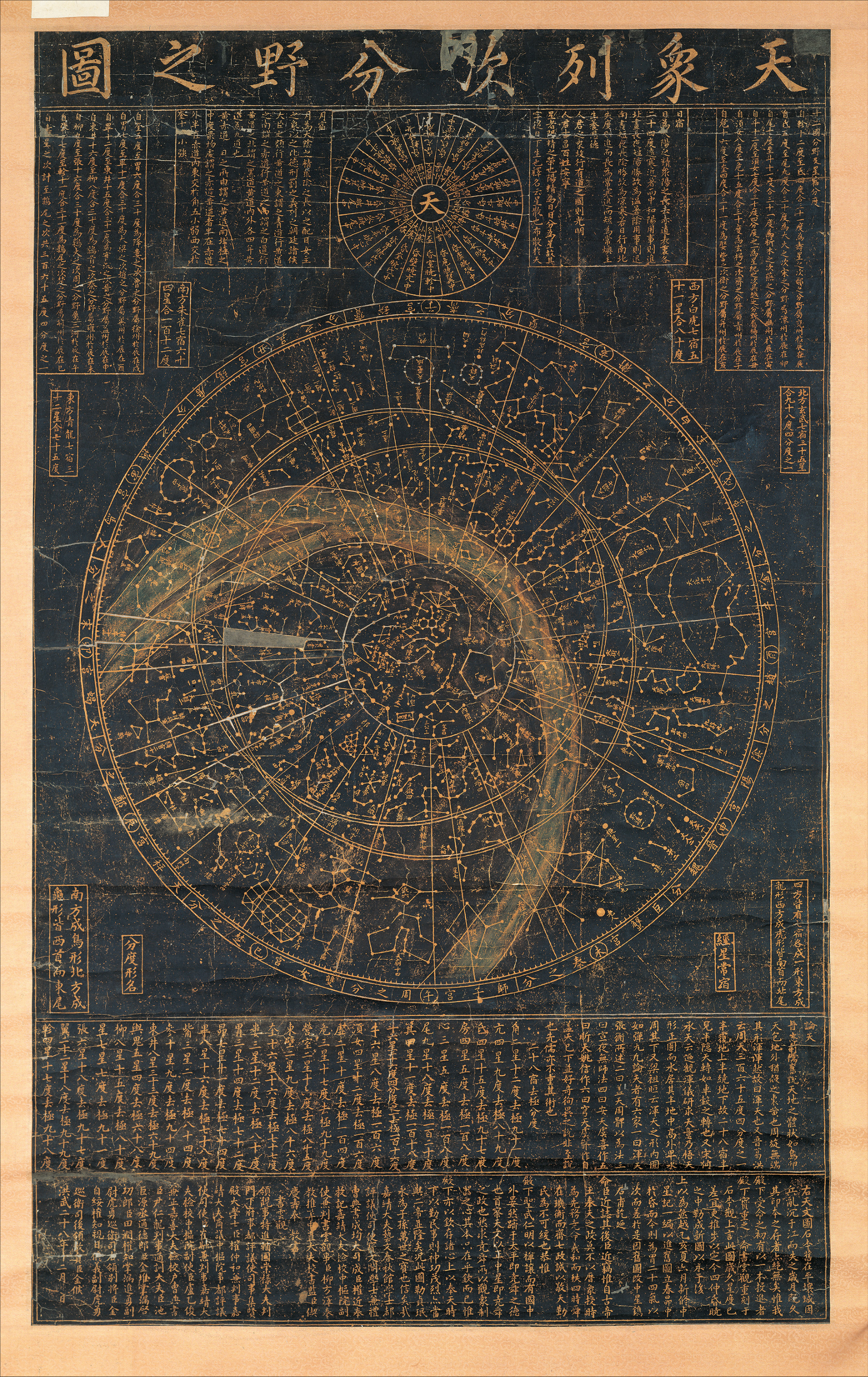 Woodcut version of Cheonsang_Yeolchabunyajido.